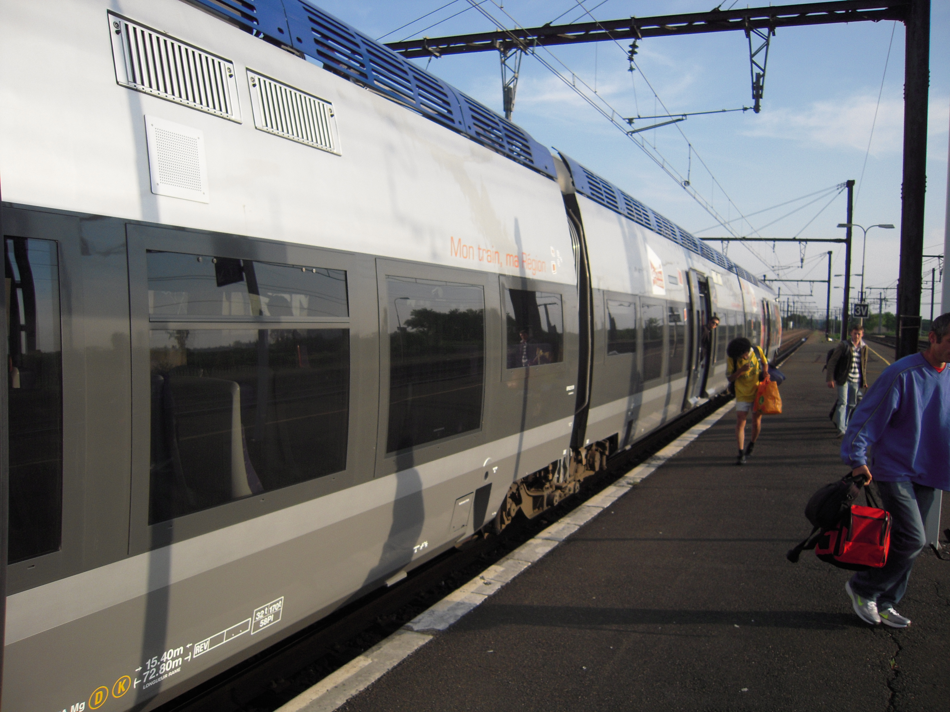 A B 81500 set at Saint-Saviol Station.